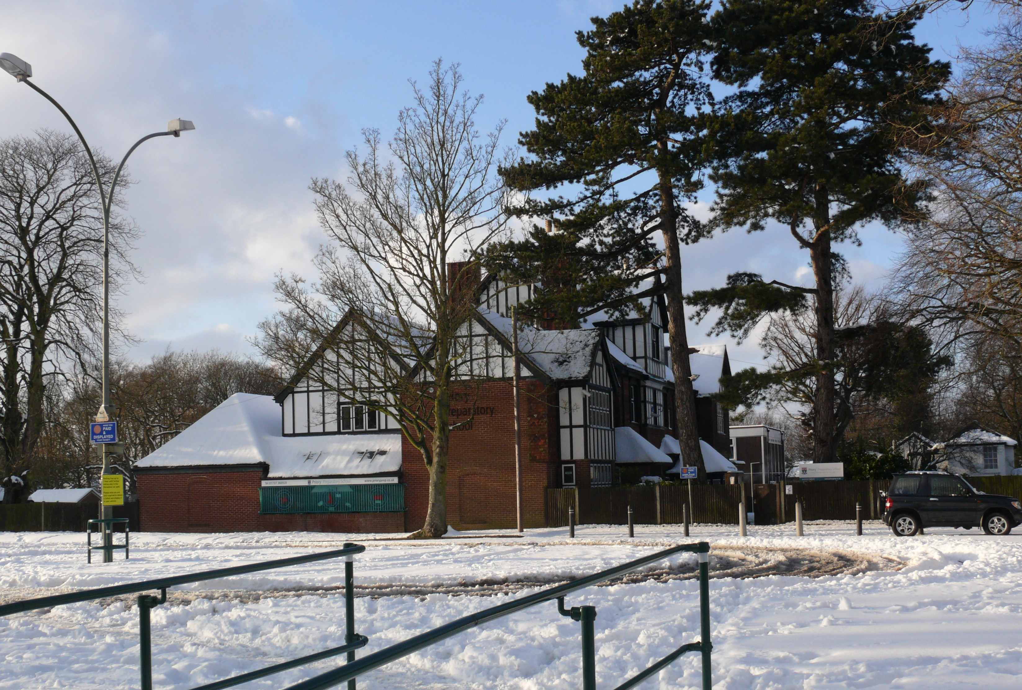 Priory School from the Horseshoe car park